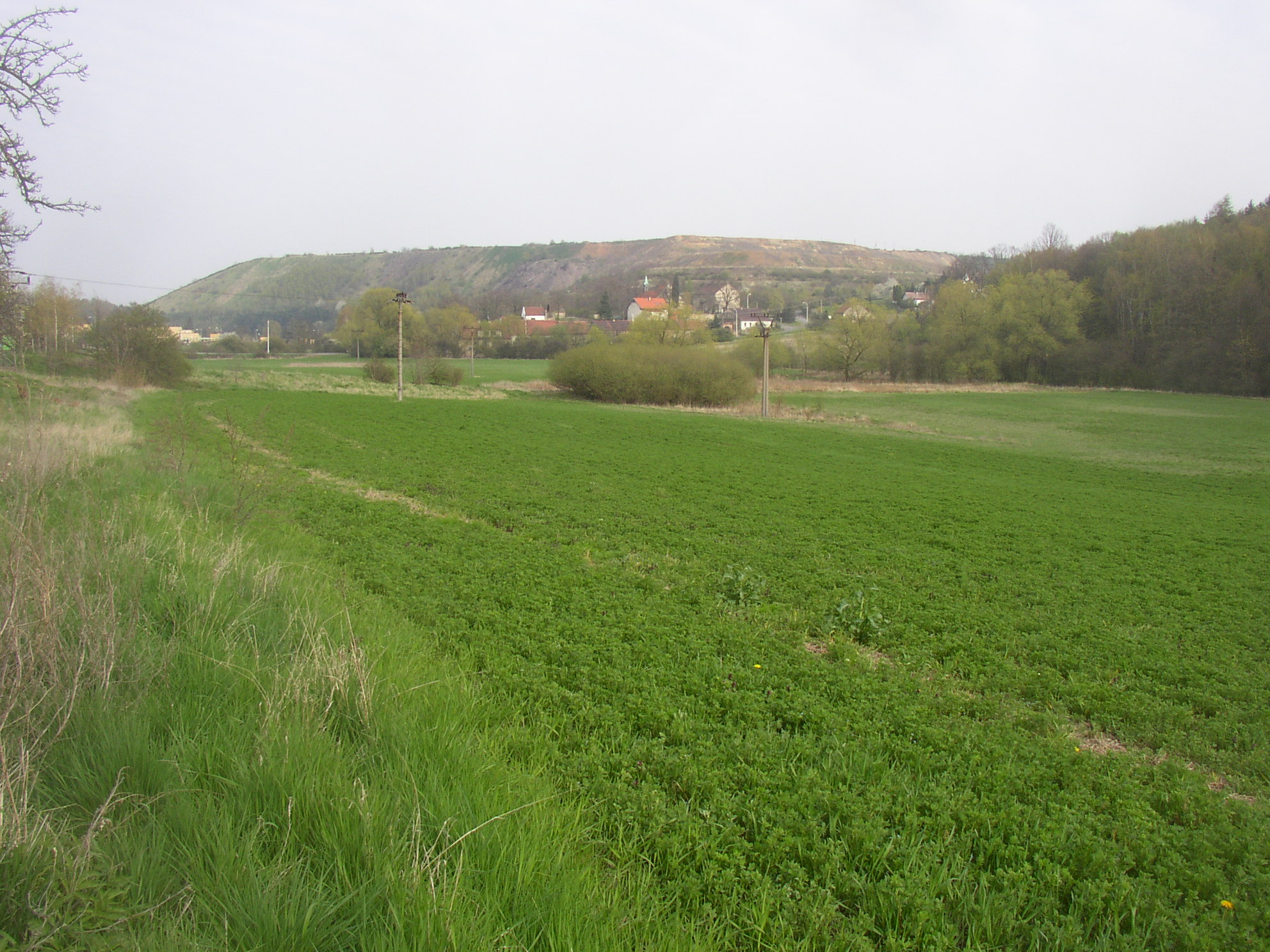 Vrapice, a suburb of Kladno city, Czech Republic. A view from Vrapická street in ESE direction towards Buštěhrad slag heap.